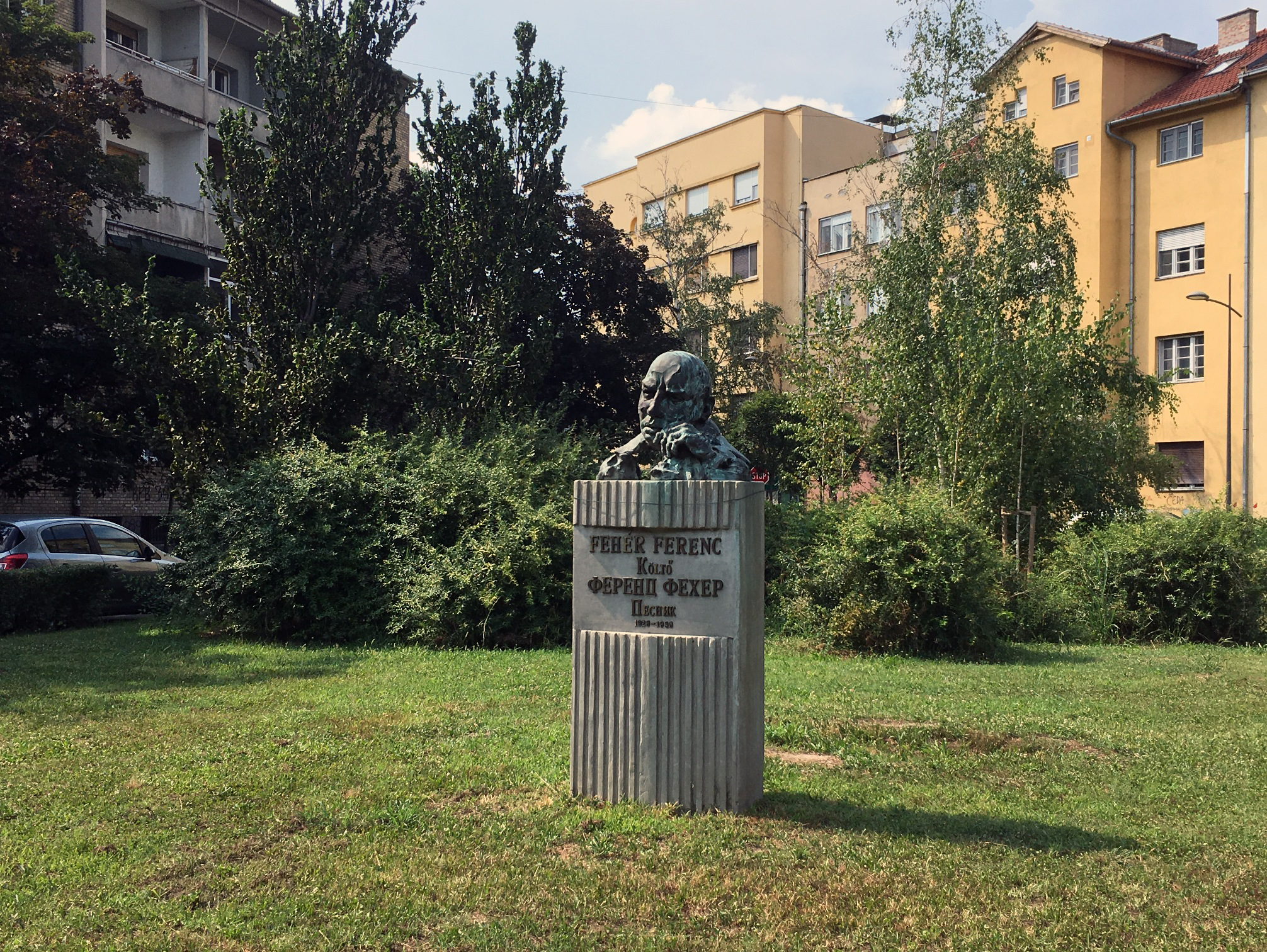 Monument to Feher Ferenc in Nov Sad